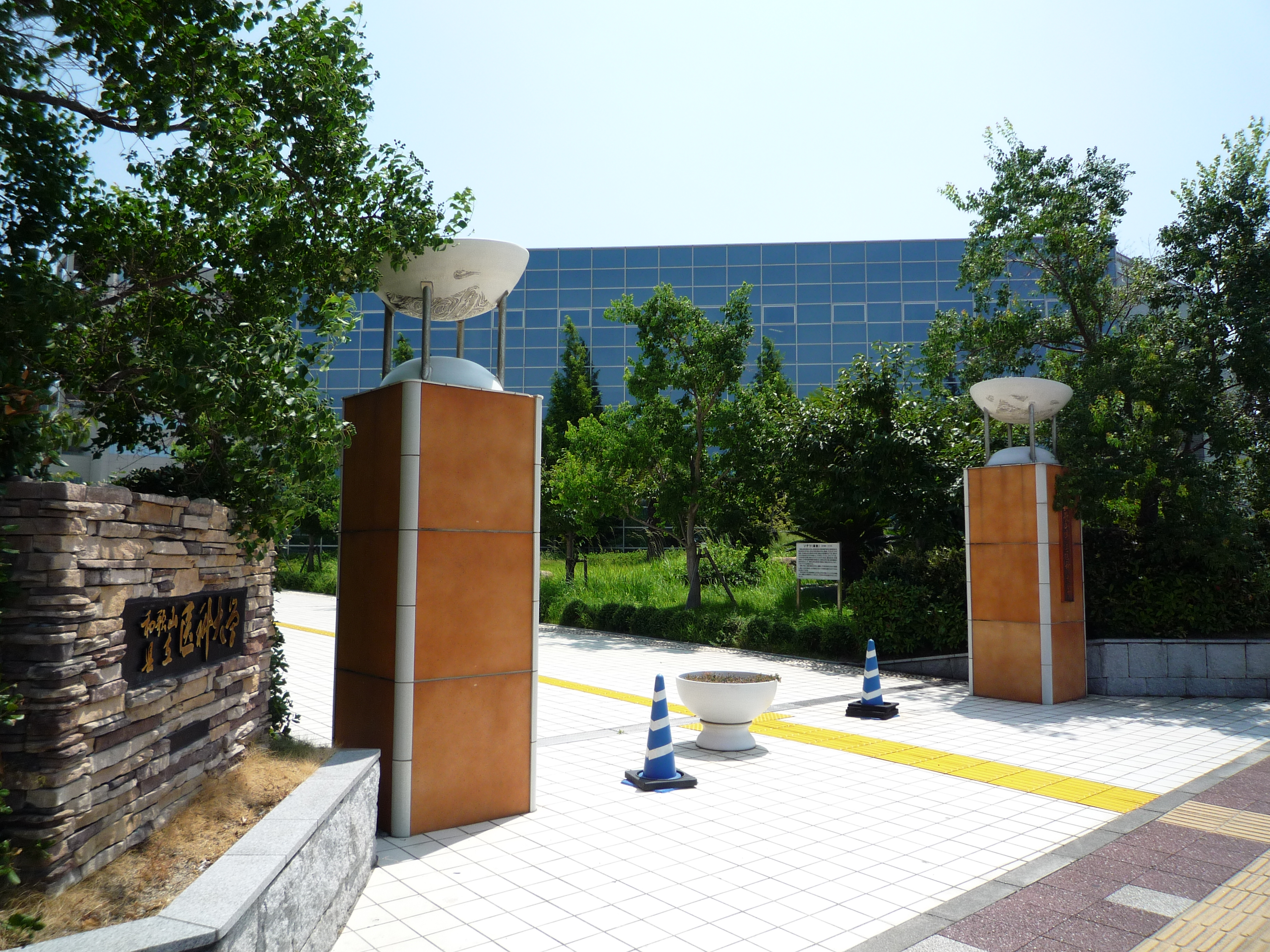 Wakayama Medical University